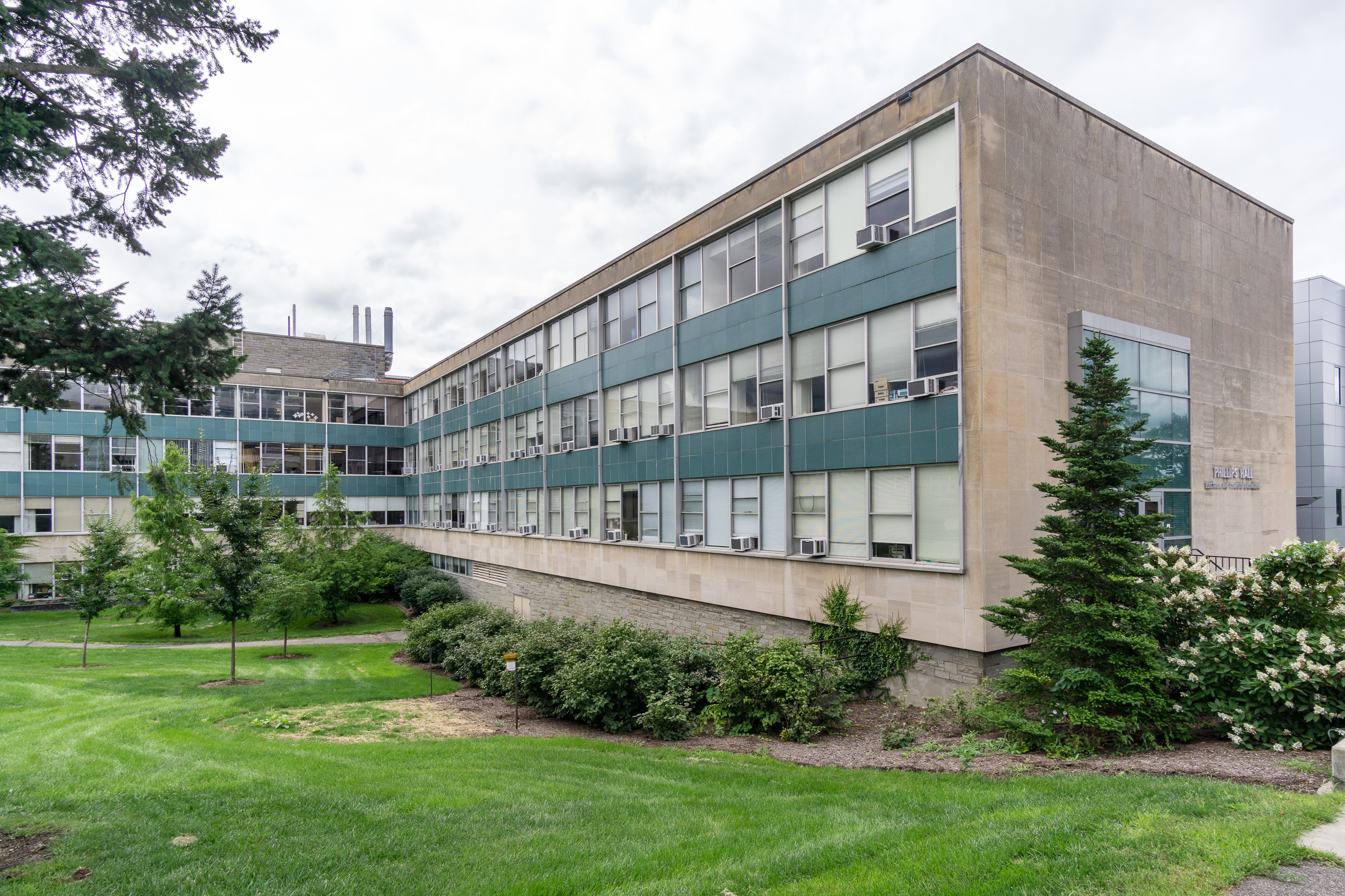 Phillips Hall, Cornell University. Perkins+Will. What's notable about this photo is that it represents a postwar style in which all of the Engineering Quadrangle buildings were constructed. They are being renovated one after another to a more contemporary style. Phillips will likely also be renovated soon after this photo was taken.